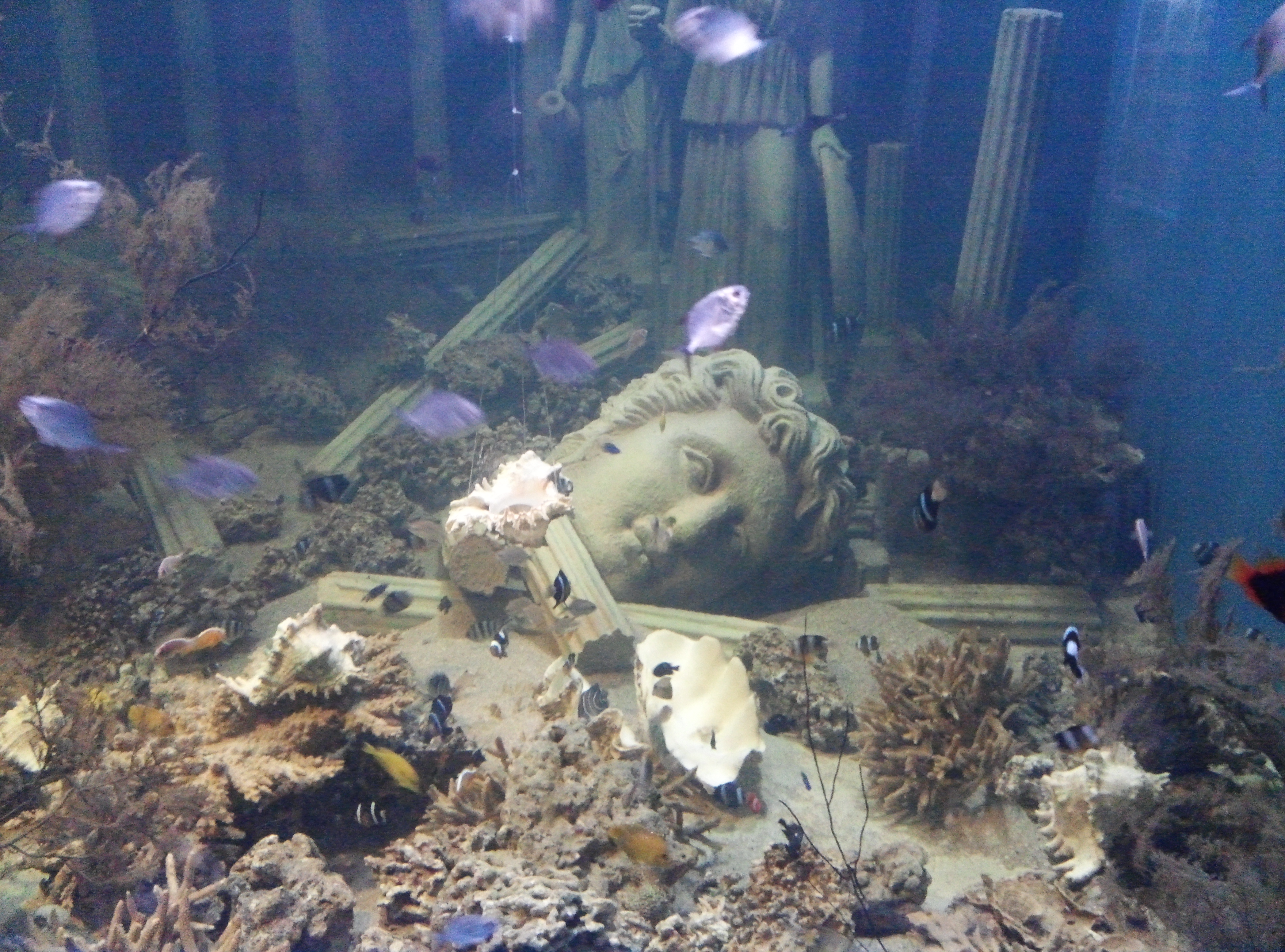 Thuỷ cung Đầm Sen 2013